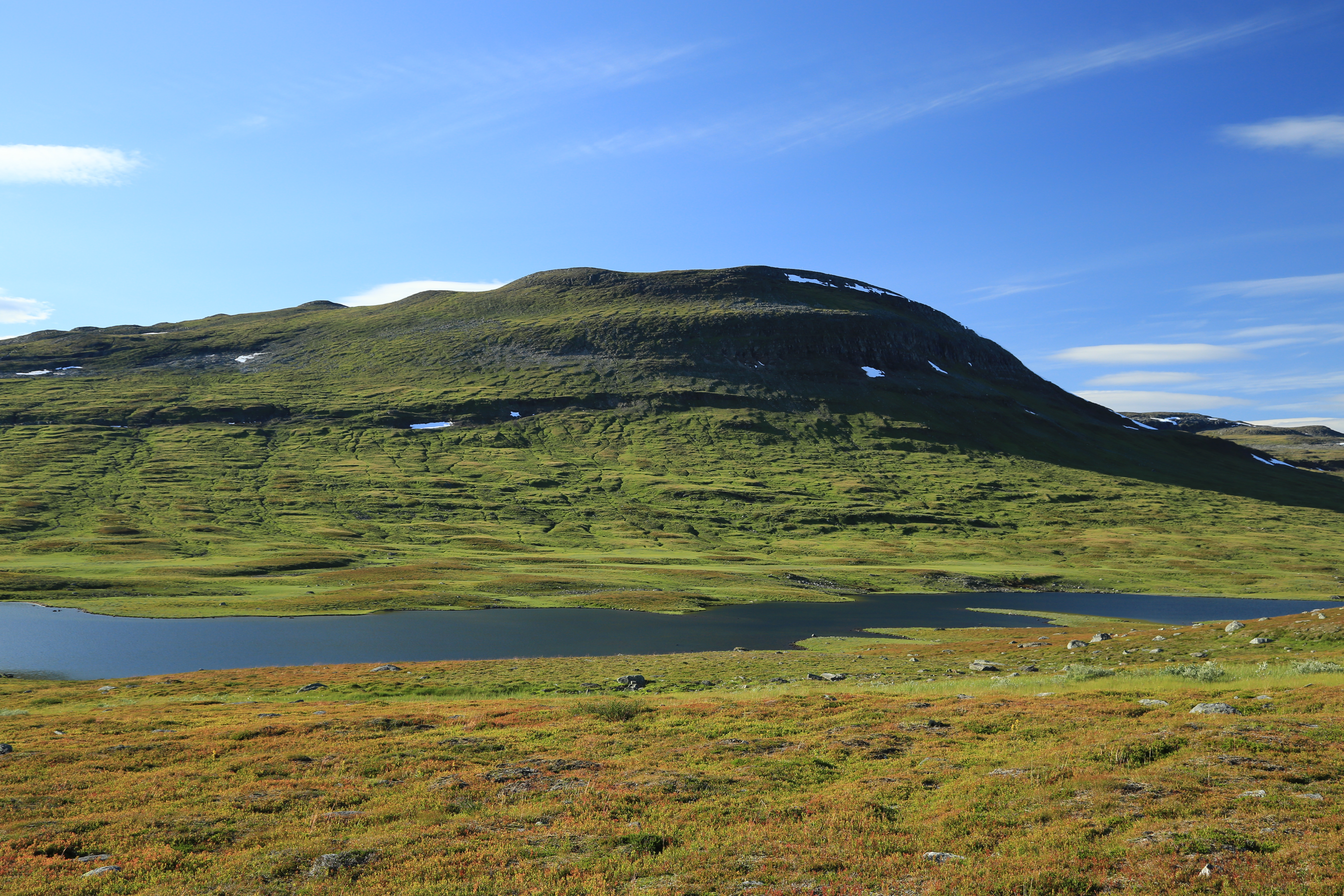 Padjelantaleden, Nordkalottleden and Áhkká massif in Sweden, in July or August 2014. This photograph is part of a series, which can be found in full in Category:Padjelantaleden and Nordkalottleden Trip in 2014. Some files have GPS coordinates associated, for others, the following overview might be helpful: Click here for approximate location at each date 25.7. Kvikkjokk and Njunjes 26.7. Njunjes and Tarrekaise 27.7. Tarrekaise and Sammerlappa, before the entrance to Padjelanta National Park 28.7. Tarraluoppal 29.7. Tuattar 30.7. Staloluokta 31.7. Arasluokta 1.8. Låddejåkkå 2.8. Kutjaure (Nordkalottleden) 3.8 + 4.8. Akkajaure, Akka mountains (Nordkalottleden and Padjelantaleden)